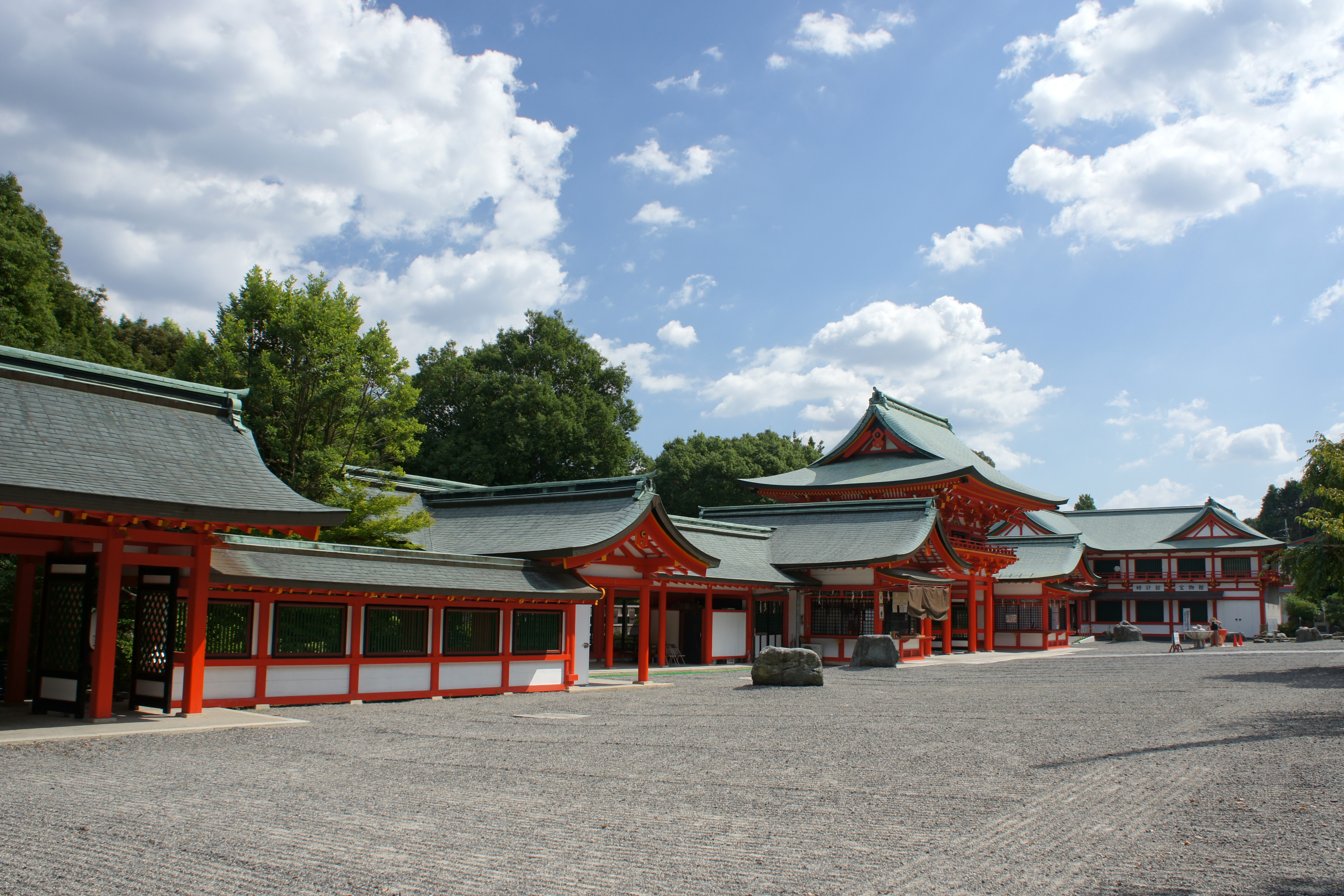 Oumi-jingu in Otsu, Shiga prefecture, Japan.